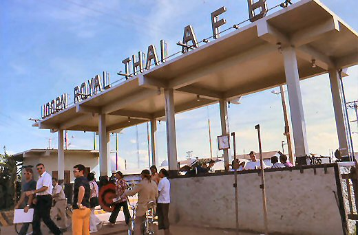 Main Gate Udorn Royal Thai AFB during Vietnam War - 1973